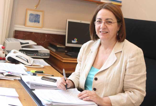 Mayor of Nicosia Eleni Mavrou at her office Republic of Cyprus